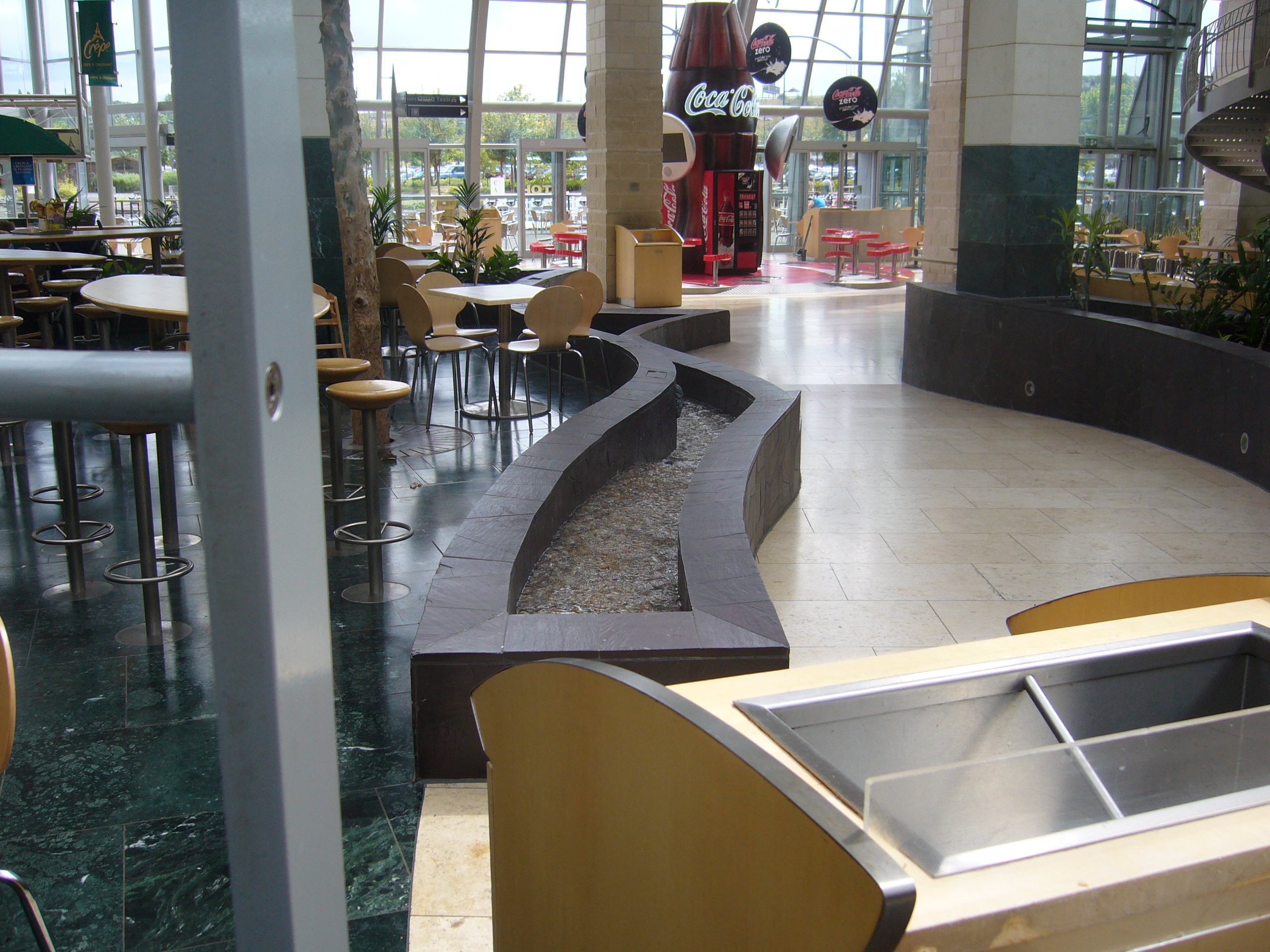 Interior of Bluewater Shopping Mall